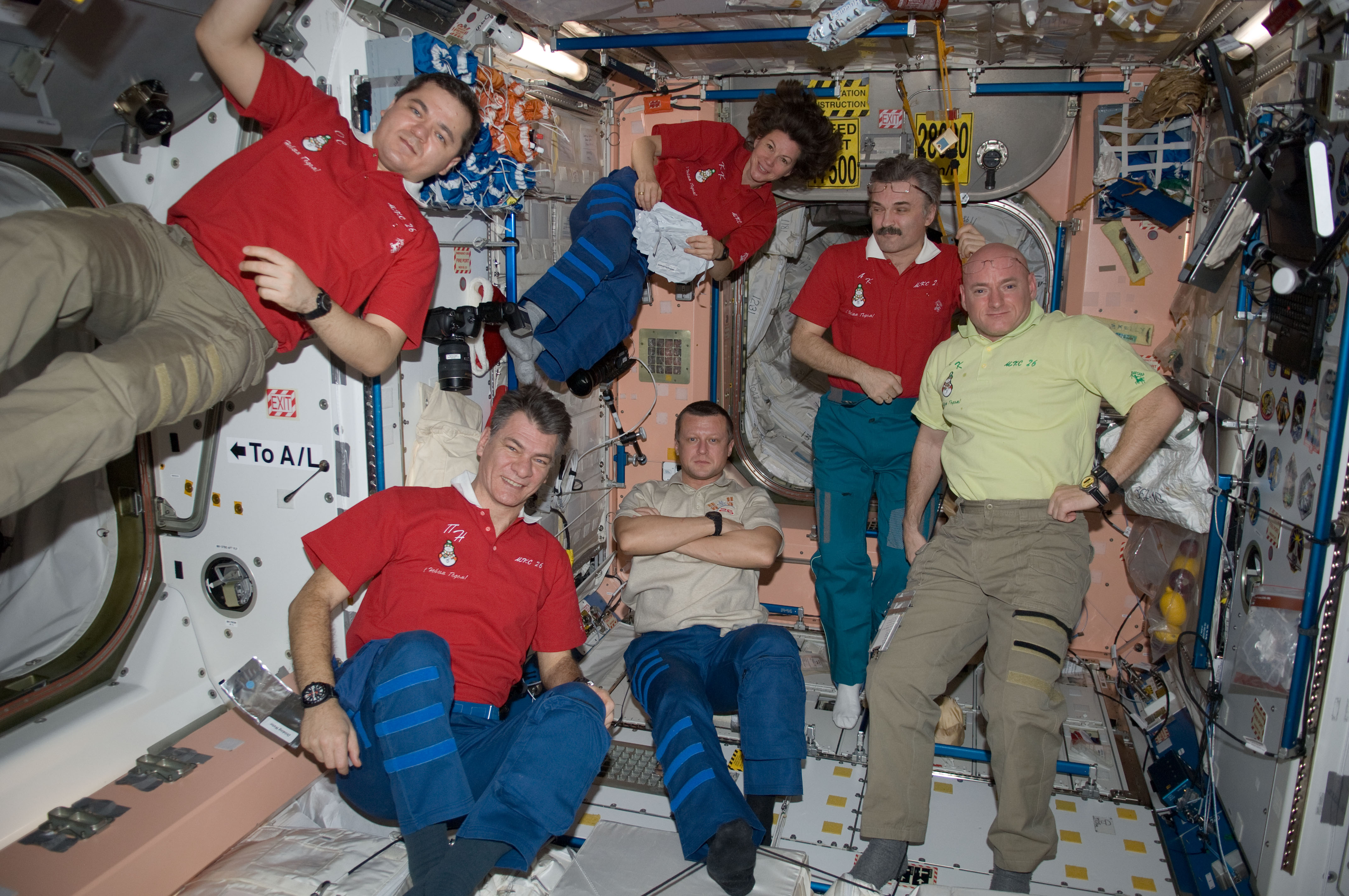 Expedition 26 crew members are pictured in the Unity node of the International Space Station on New Year's Eve. Clockwise from the left are Russian cosmonaut Oleg Skripochka, NASA astronaut Catherine (Cady) Coleman, Russian cosmonaut Alexander Kaleri, all flight engineers; NASA astronaut Scott Kelly, commander; Russian cosmonaut Dmitry Kondratyev and European Space Agency astronaut Paolo Nespoli, both flight engineers.